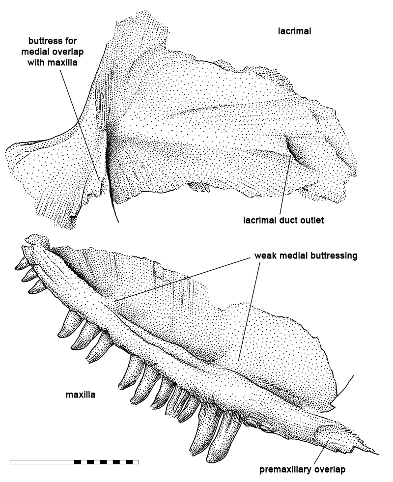 Interpretative drawing of ROM 43608, holotype of Kenomagnathus scottae, gen. et sp. nov., medial aspect of lacrimal and maxilla. Scale bar equals 2 cm.